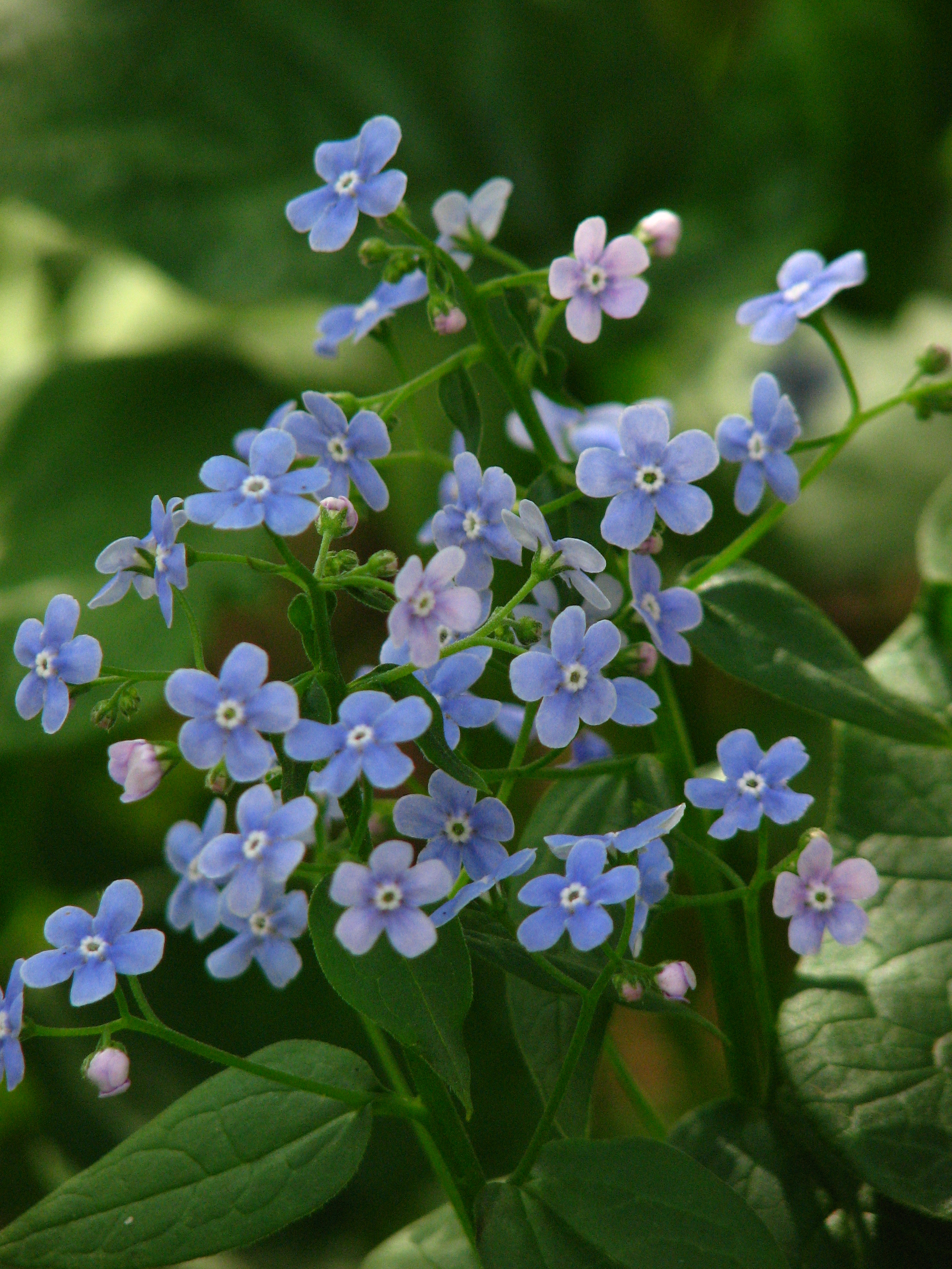 Brunnera sibirica in flower beds in the Botanical Garden of Moscow State University "Aptekarsky Ogorod".